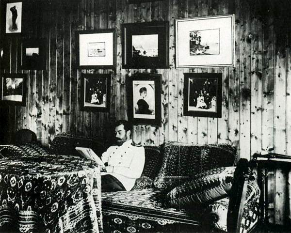 Nicholas II of Russia